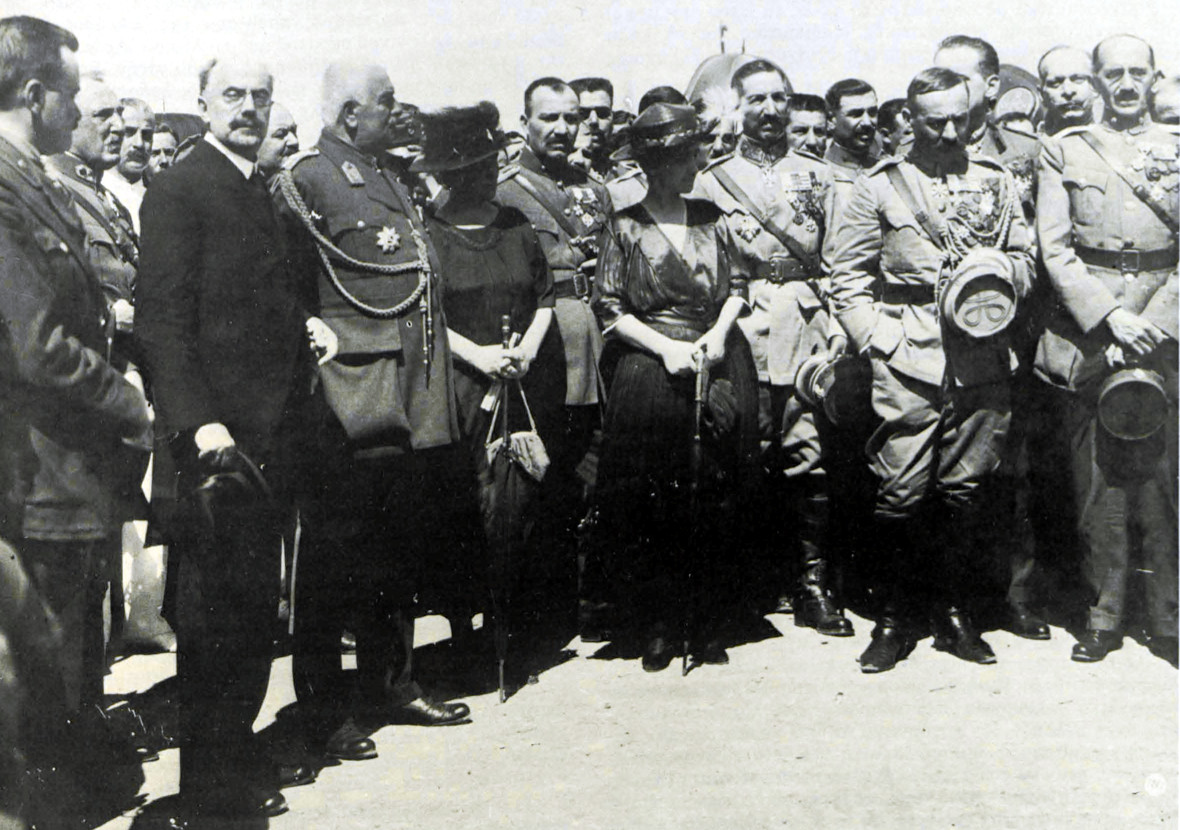 The Greek civilian and military leadership in Asia Minor, October 1920: the Greek High Commissioner Aristeidis Stergiadis (left, with suit), to his right the C-in-C of the Greek Army Leonidas Paraskevopoulos and second from right Paraskevopoulos' chief of staff, Major General Theodoros Pangalos.